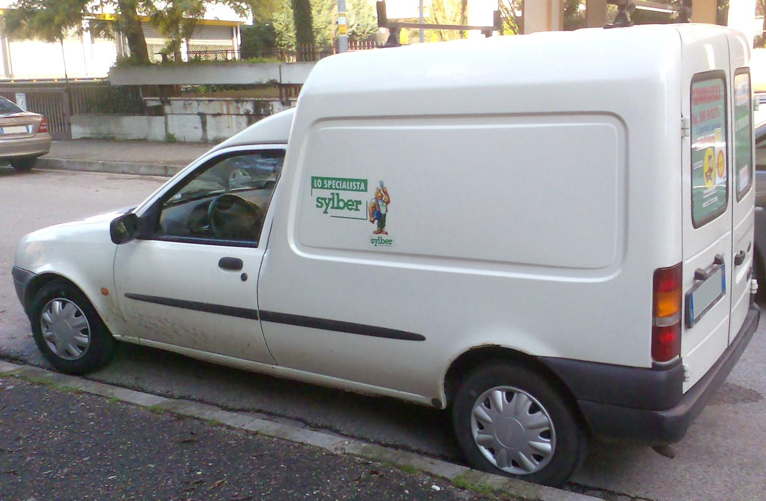 Ford Courier European version